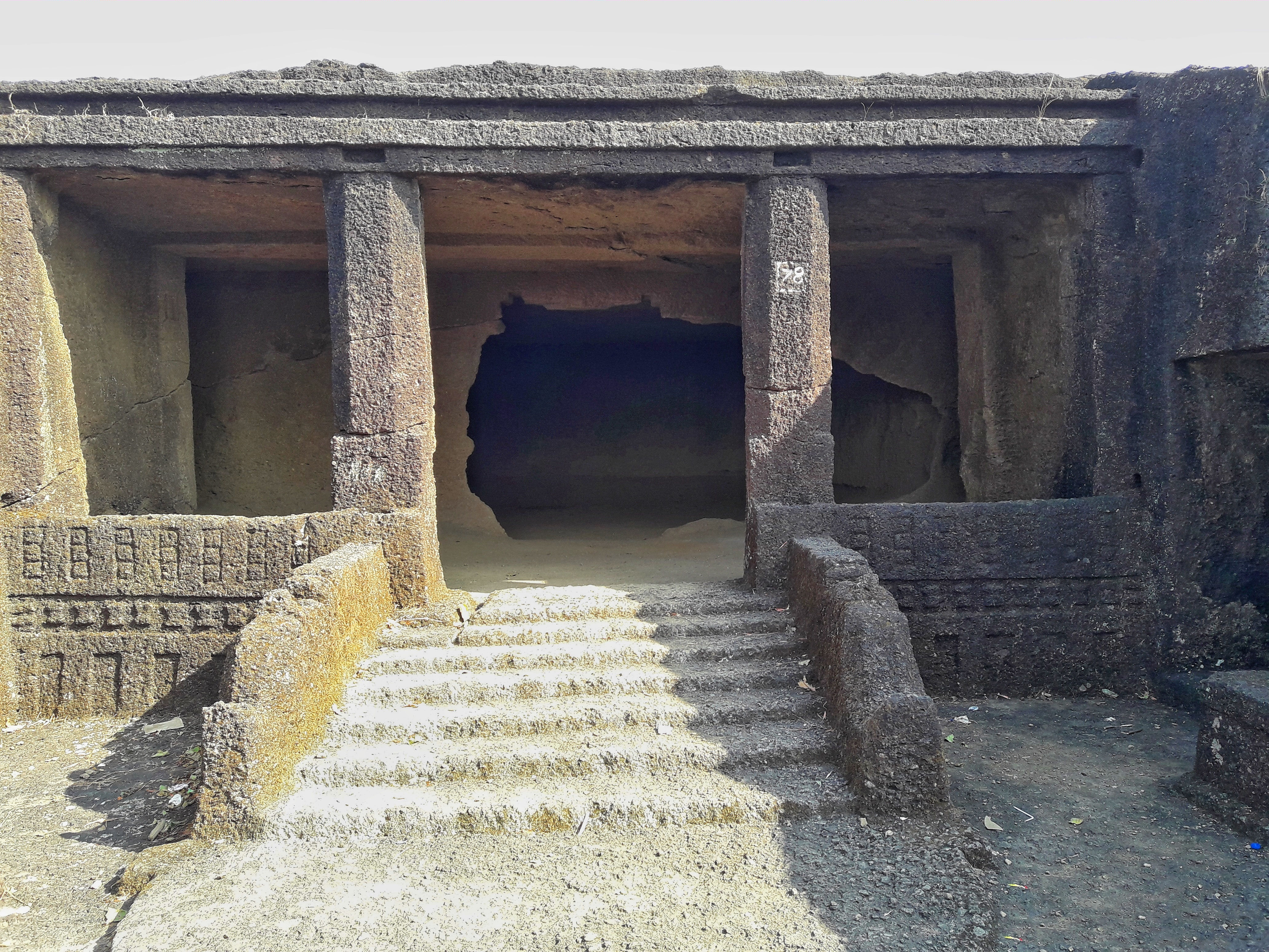 Kanheri cave 78